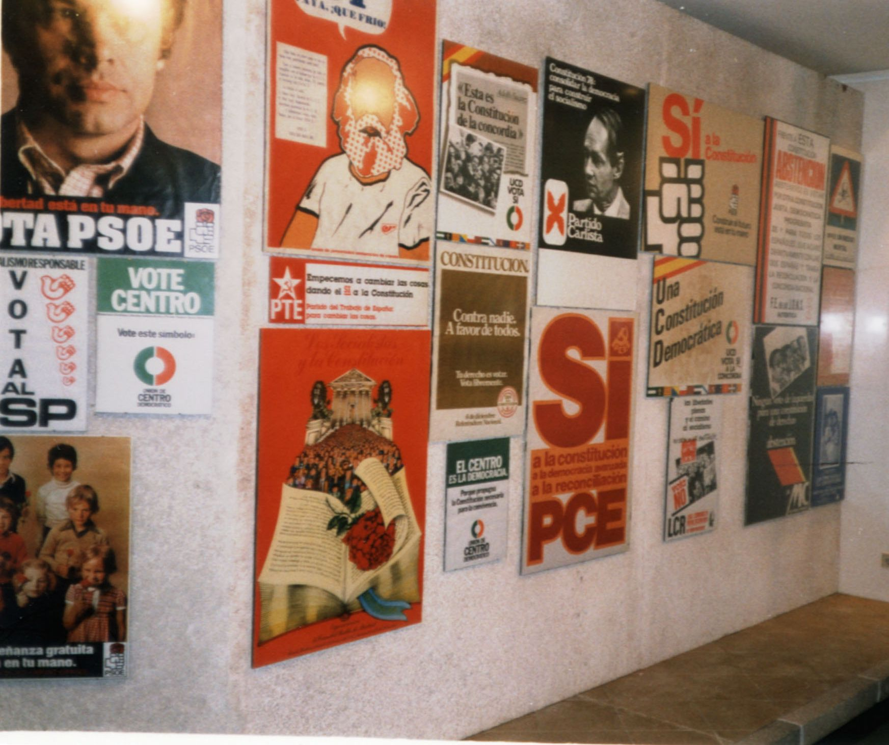 Political posters from the 1970s on a simulated street wall in an exhibition celebrating 20 years of the Spanish Constitution of 1978. Among the posters there are: PSOE's Felipe González, Alianza Popular, Unión de Centro Democrático, Karl Marx, Partido del Trabajo de España, Carlist Party, Partido Comunista de España, Liga de Comunistas Revolucionarios, Falange Española de las JONS, MC (?) and others.